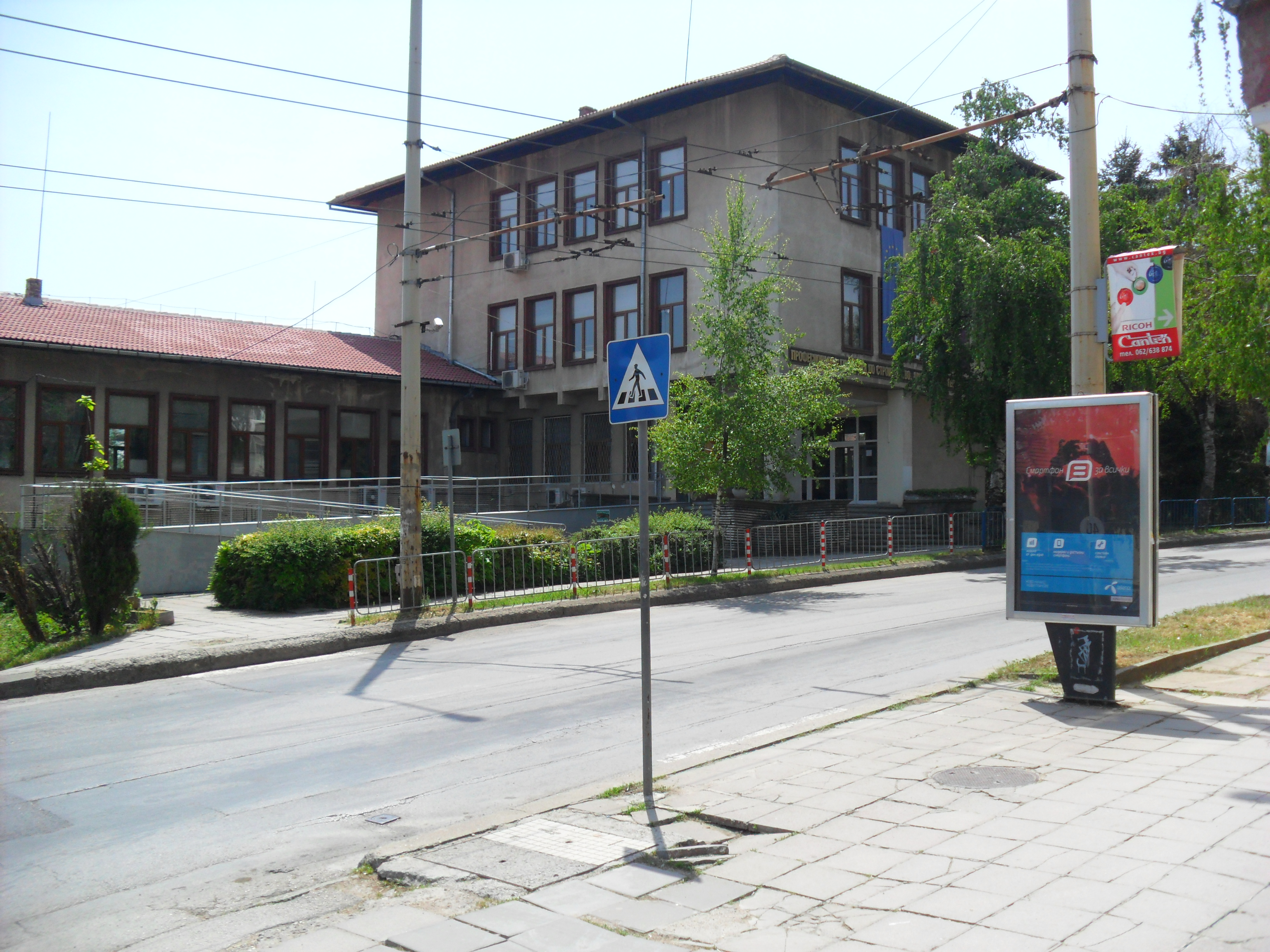 Angel Popov School of Architecture and Surveying